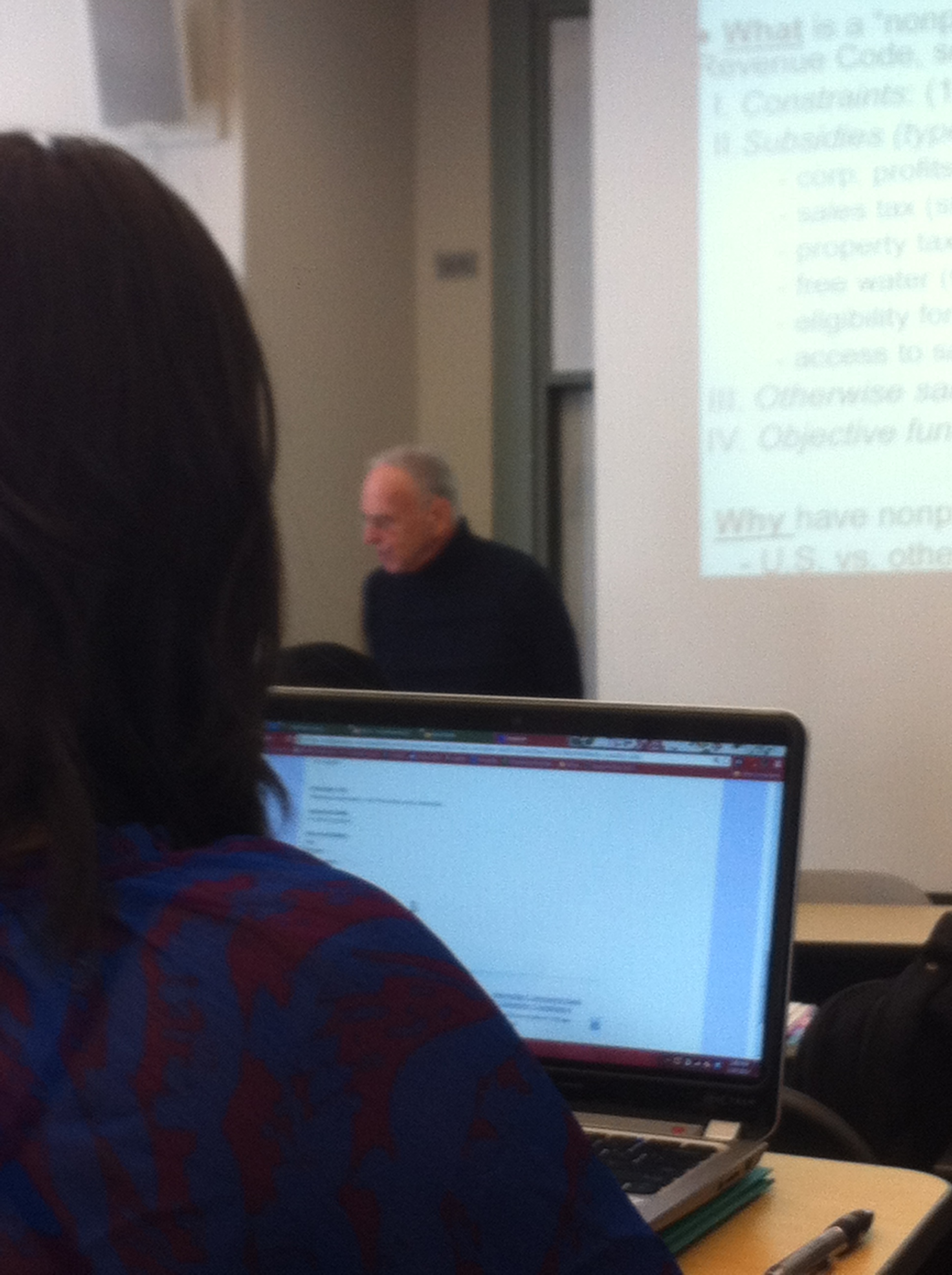 Economist Burton Weisbrod